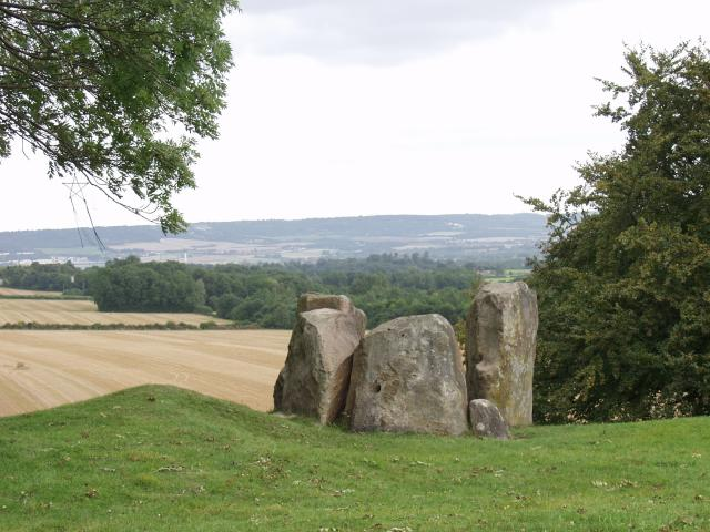 Coldrum Long Barrow. Looking east from the barrow, which has collapsed down the hill.